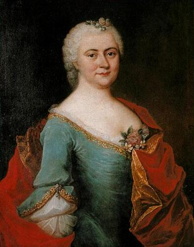 Portrait of Luise Gottsched (Gottschedin) (1713-1762), German poet